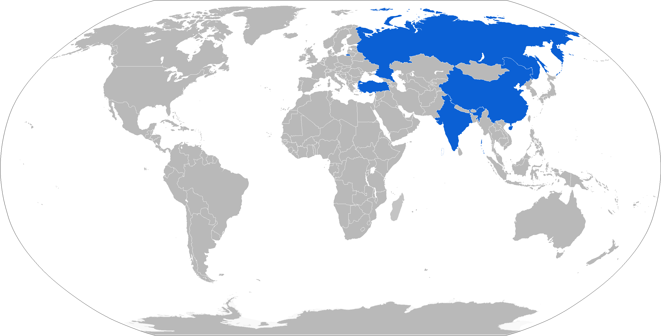 S-400 Operators